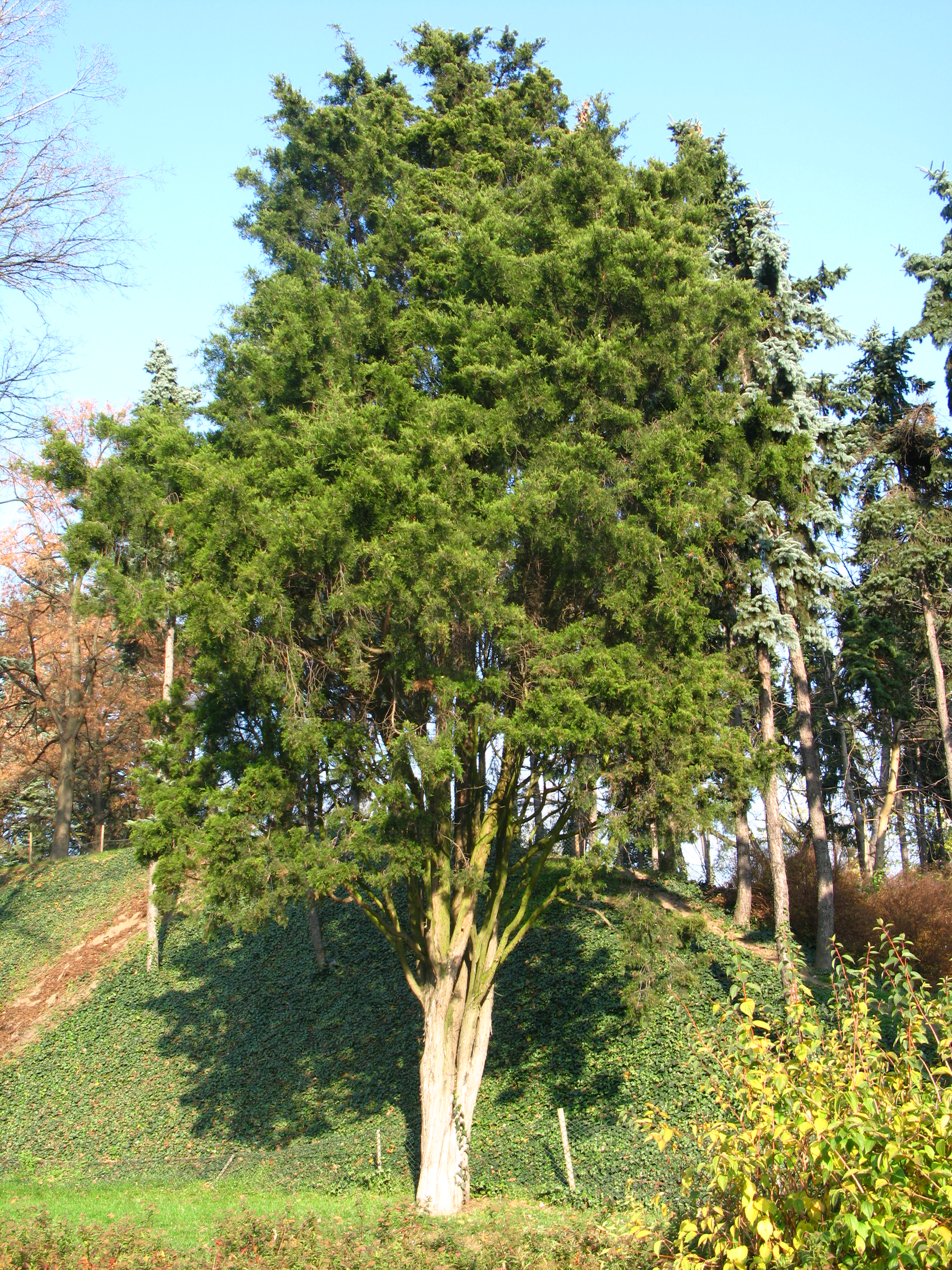 Juniperus virginiana[1] in Park Żeromskiego in Warsaw